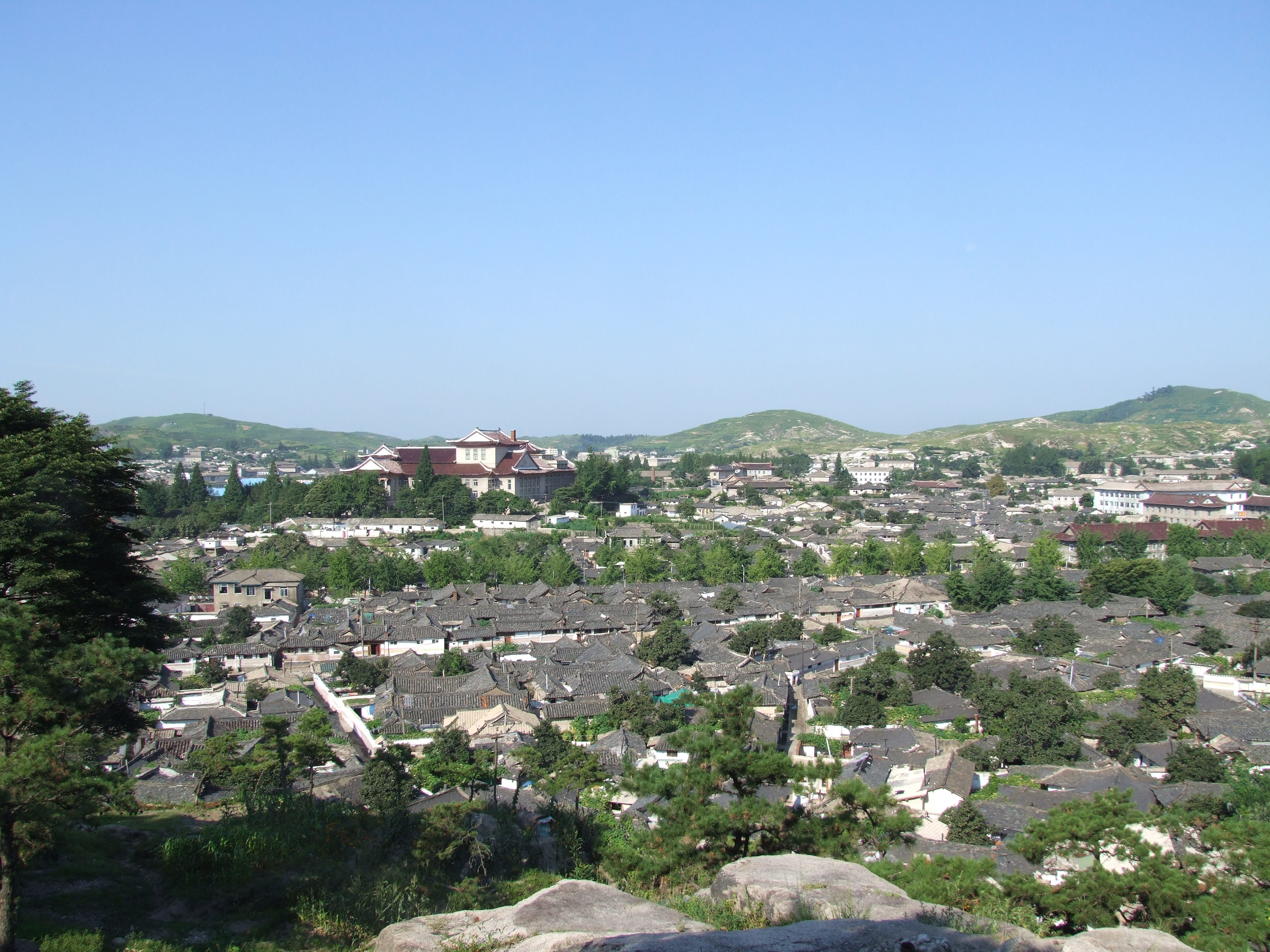 Old town Kaesong